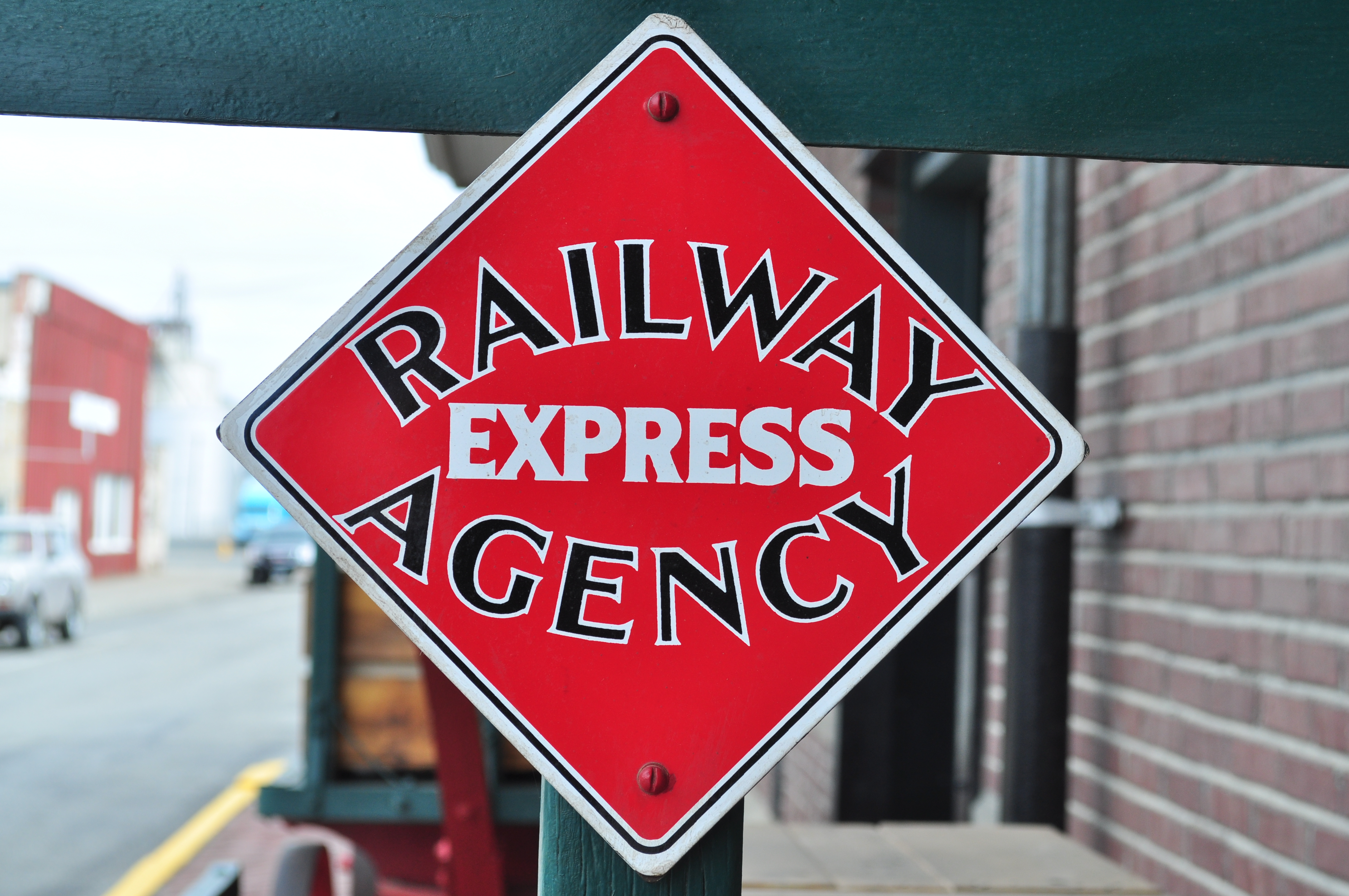 Railway Express sign, Northern Pacific Railway Depot, Washington St. & Railroad Ave, Ritzville, Washington, U.S. The depot is a contributing property of the Ritzville Historic District.